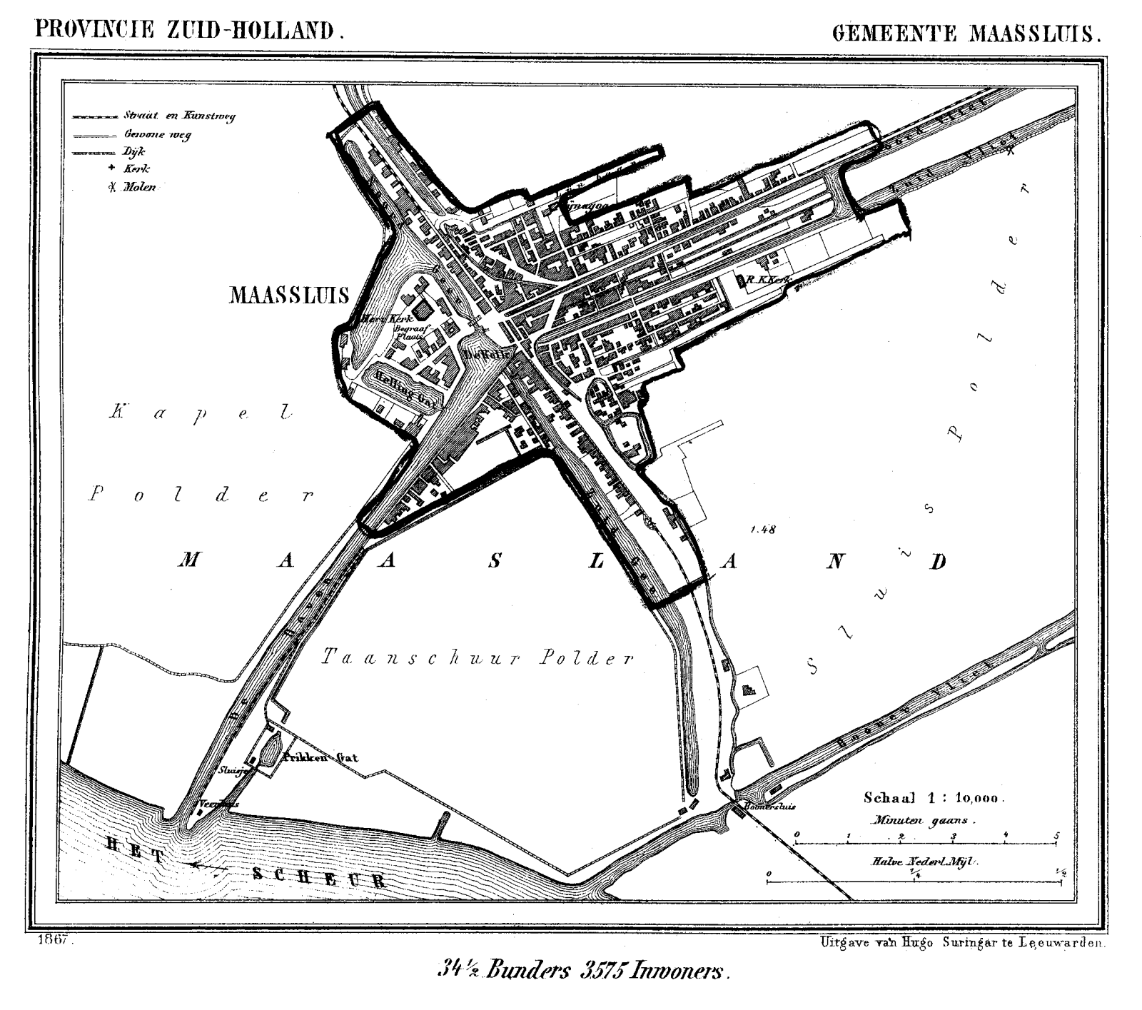 Historic map of Maassluis, South Holland, the Netherlands